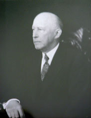 a photograph of us solicitor general james crawford biggs